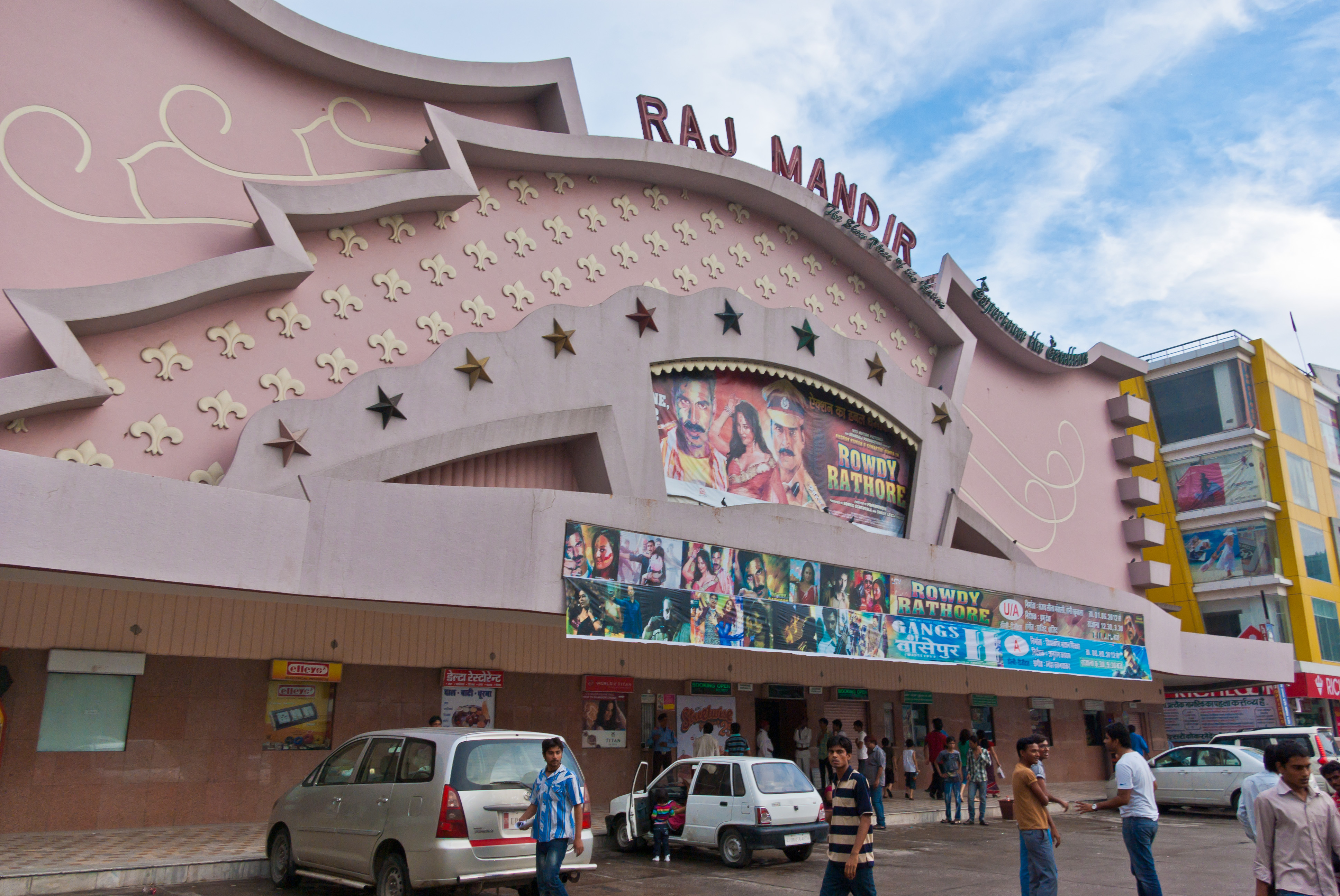 Raj Mandir Cinema, Jaipur